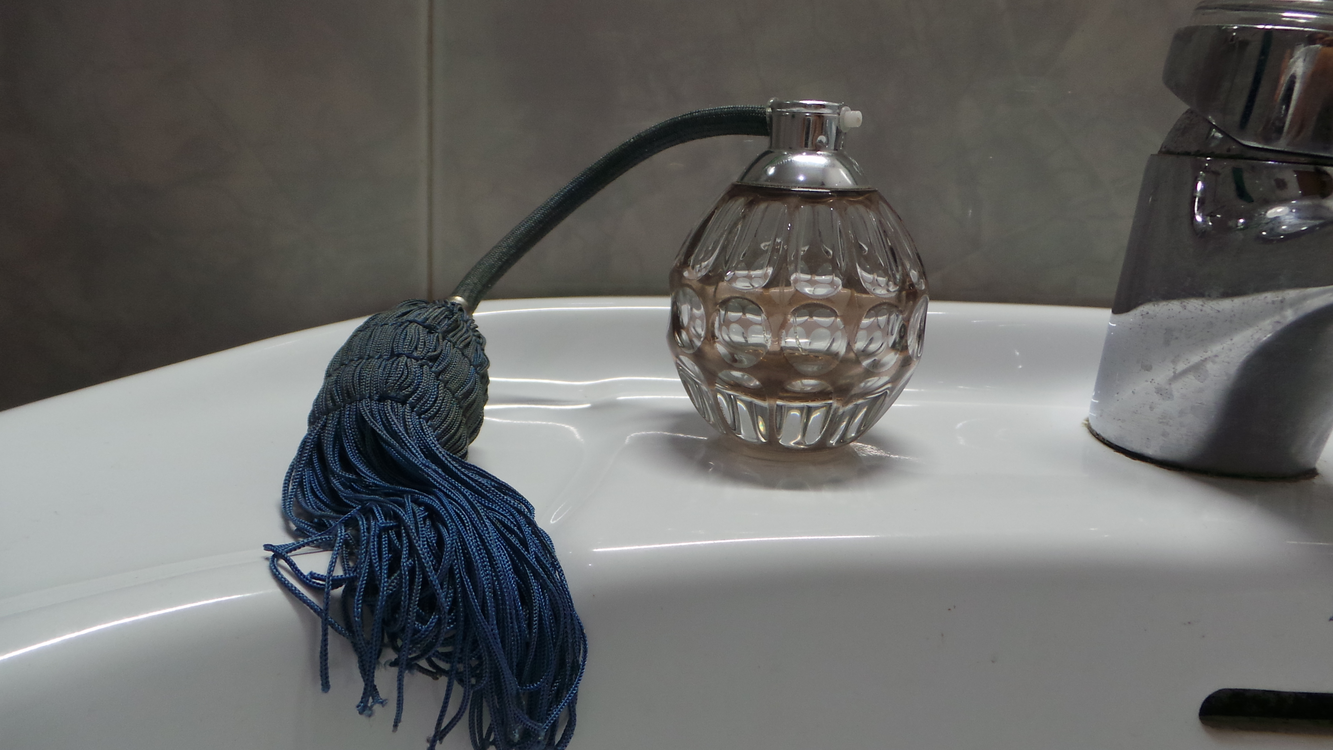 Sparay- Pulveritzer